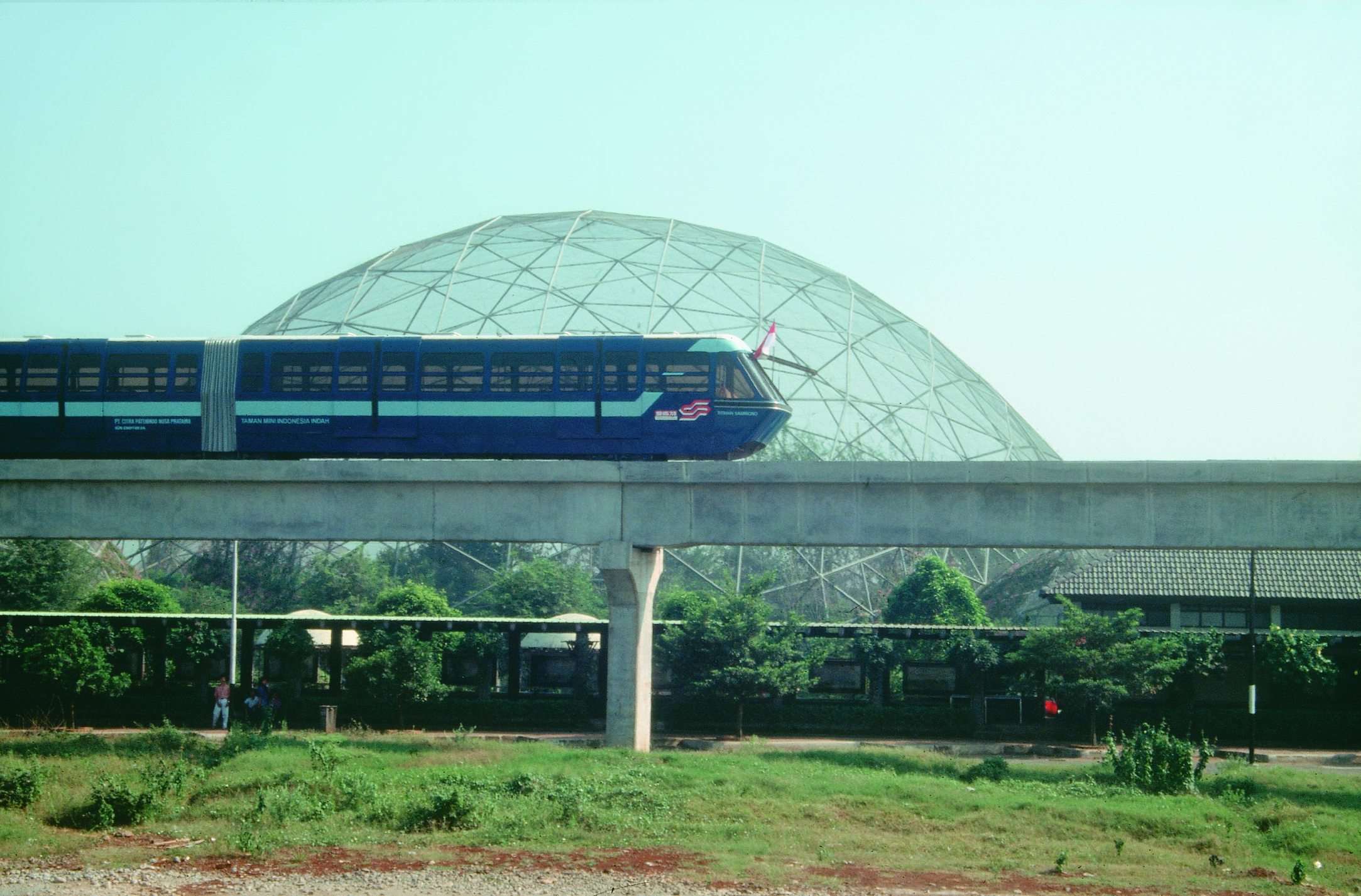 Aeromovel